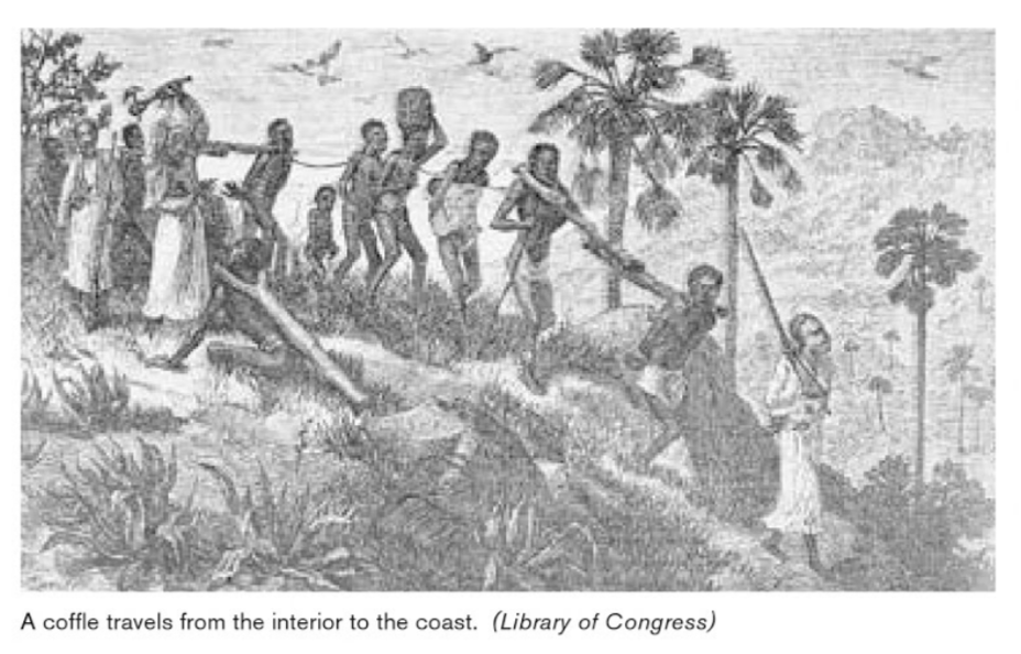 A coffle travels from the interior to the coast.